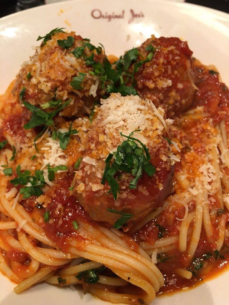 Meatballs and spaghetti at Original Joe's in San Francisco, California.